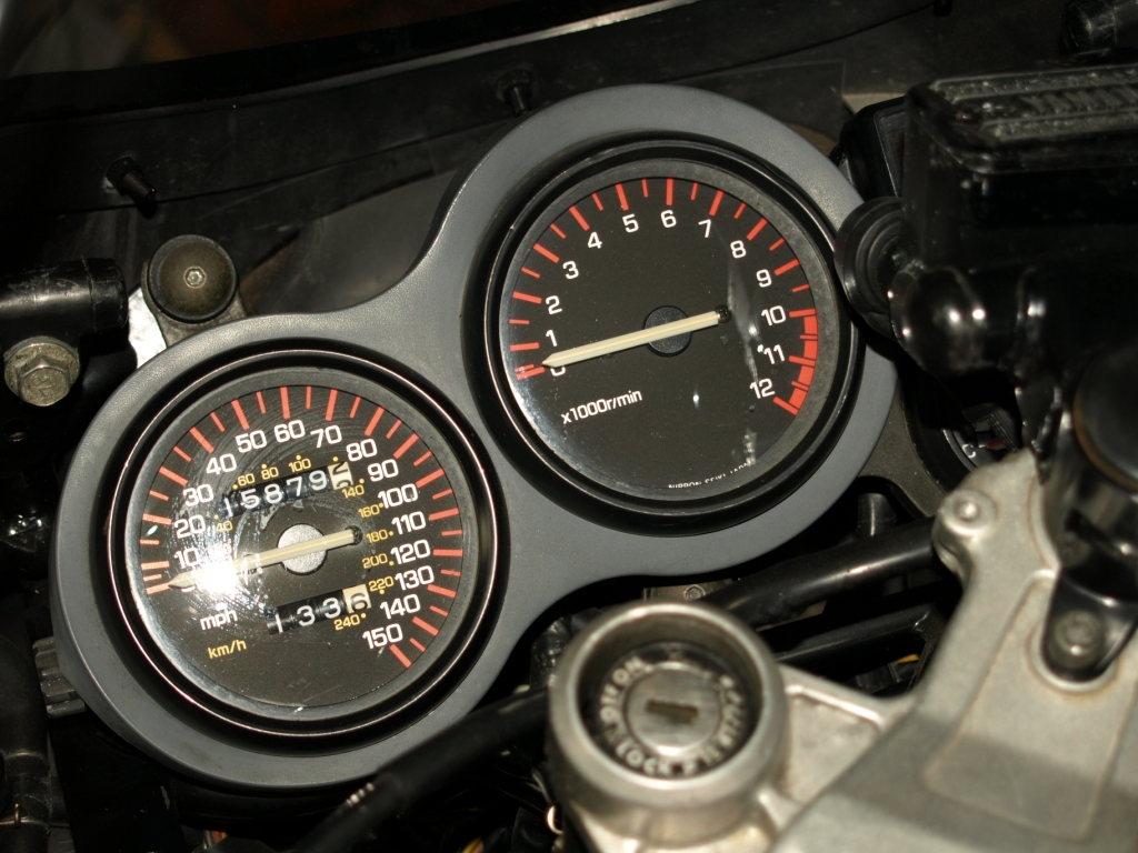 Yamaha RD500LC instruments